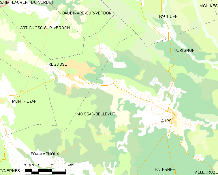 Map of French municipality Moissac-Bellevue